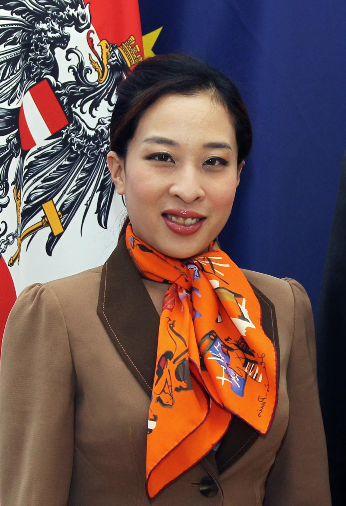 Antrittsbesuch der thailändischen Botschafterin, H.R.H. Princess Bajrakitiyabha Mahidol bei Vizekanzler und Außenminister Michael Spindelegger.